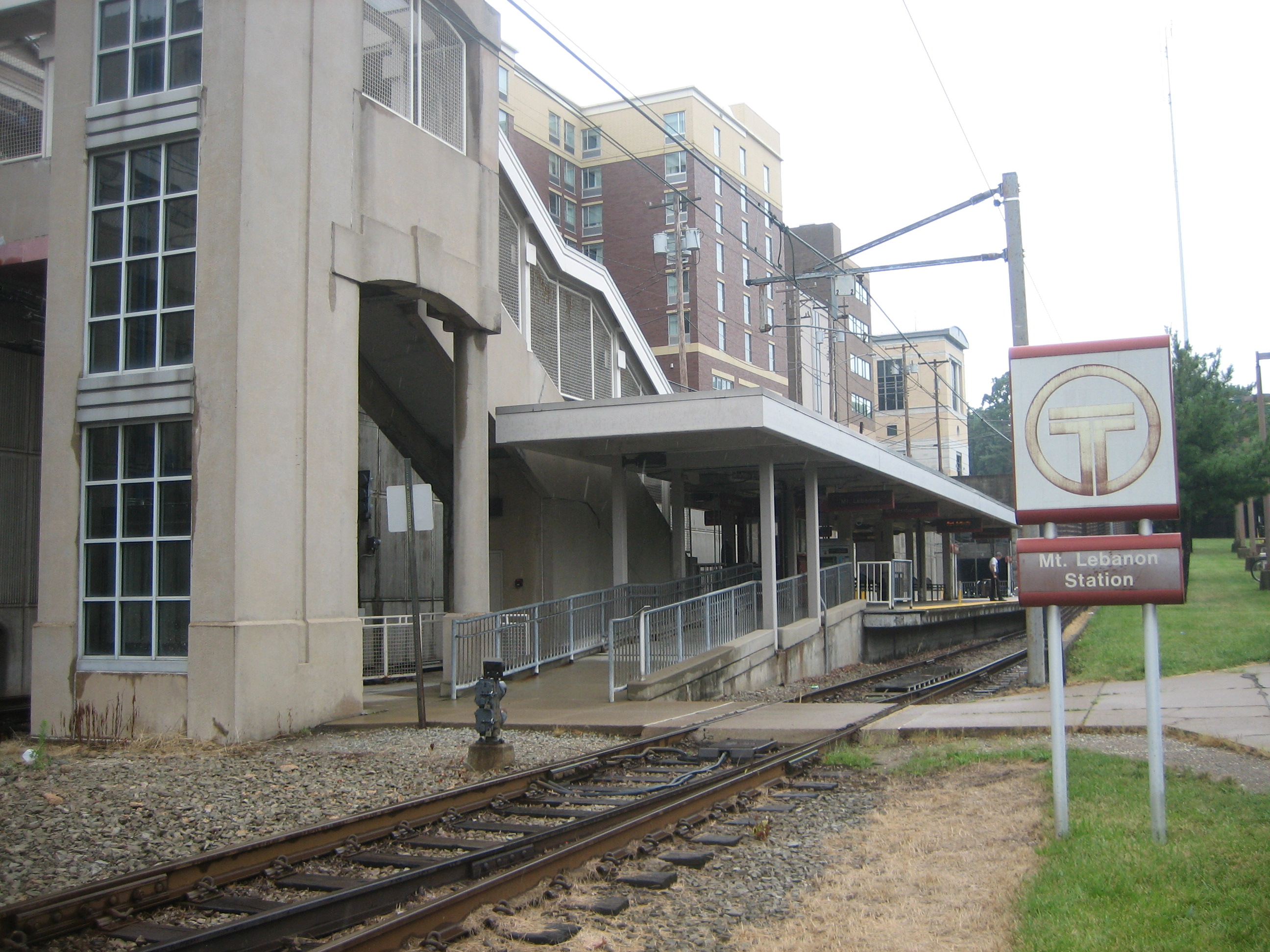 Entrance to Mt. Lebanon station of the Pittsburgh Light Rail, looking south from Shady Drive East.